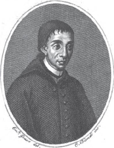 Venerando Gangi, Sicilian poet and sculptor